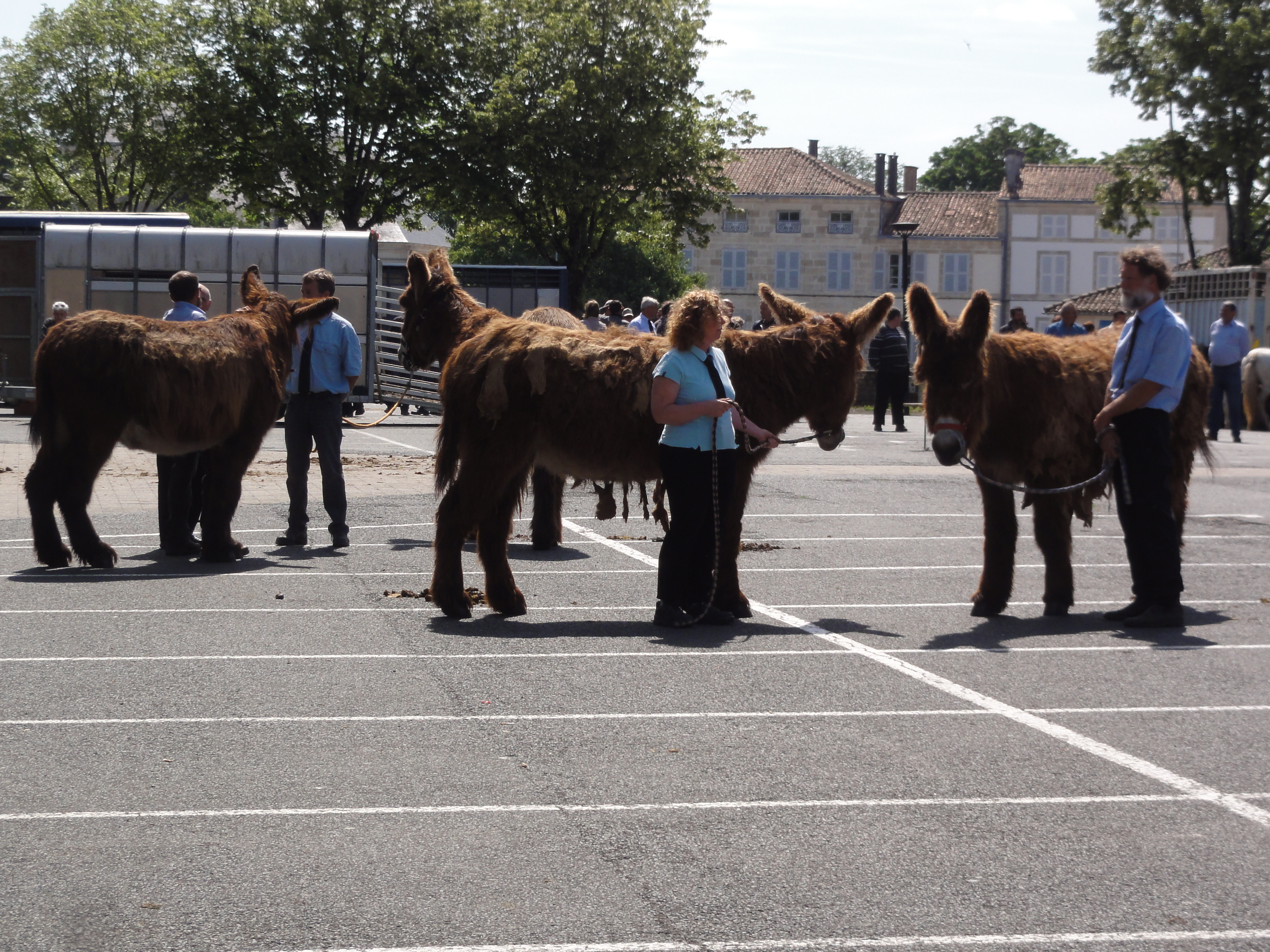 Melle (Deux-Sèvres) Concours baudets du Poitou 2012, 14 juin